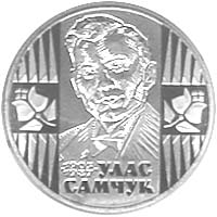 Coin of Ukraine, commemorating the writer Ulas Samchuk